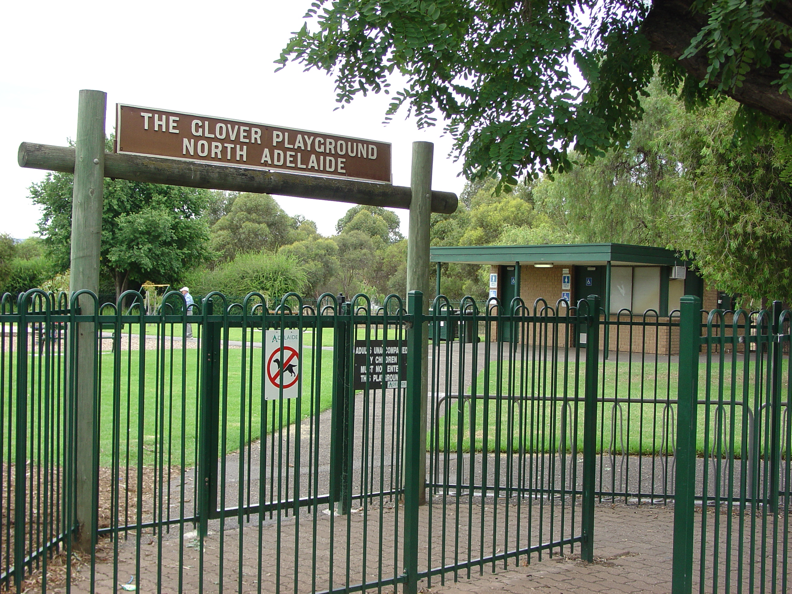 Entrance and Toilet Block, Glover Playground, North Adelaide, Adelaide, Australia. The right hand side of the toilet block was formerly a kiosk. Taken 3:05pm, 4 February 2005 with a Sony Mavica. Taken by Alex Sims.